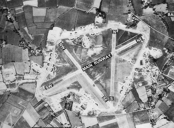 Aerial photograph of RAF Sudbury, England.